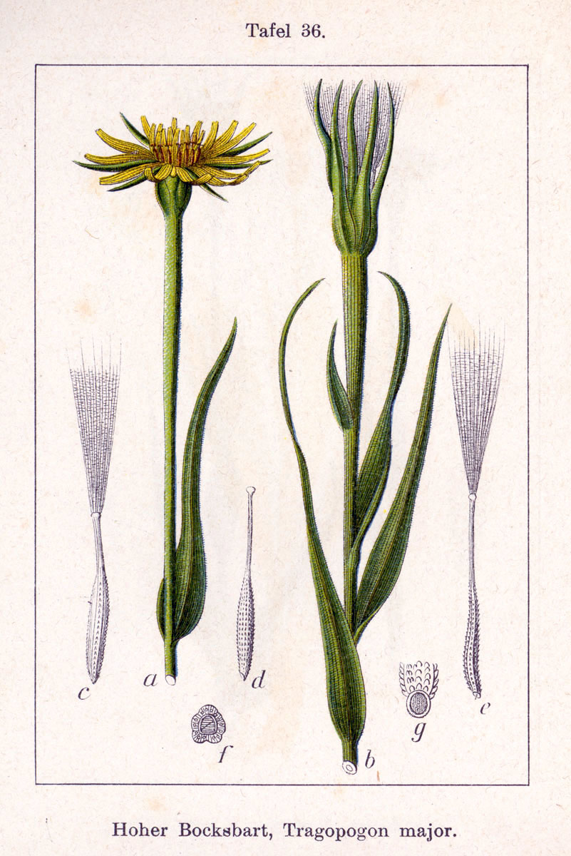 Tragopogon dubius Scop., syn. Tragopogon major Jacq. Original Description "Hoher Bocksbart", Tragopogon major